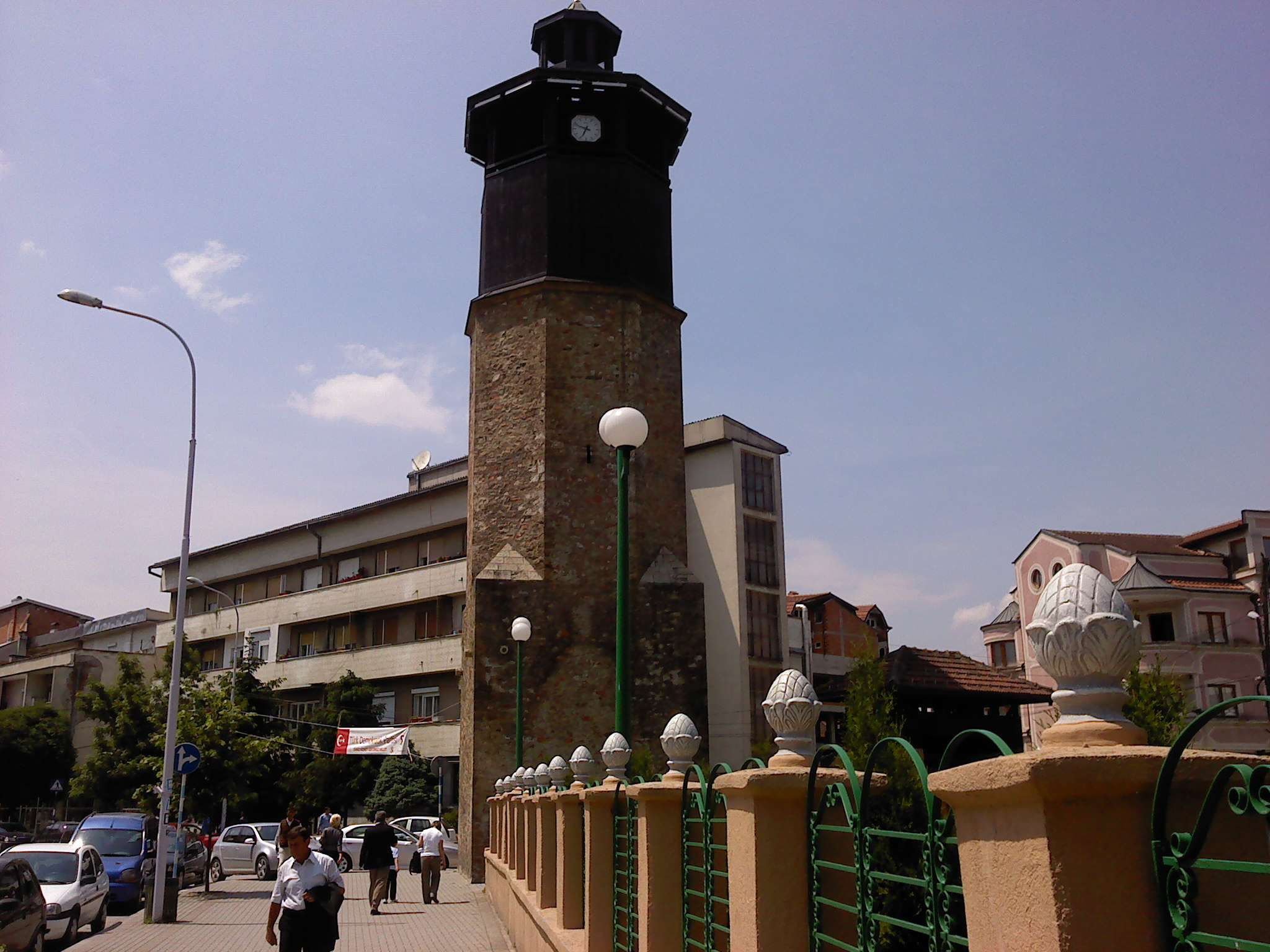 Clock tower in Gostivar, Macedonia